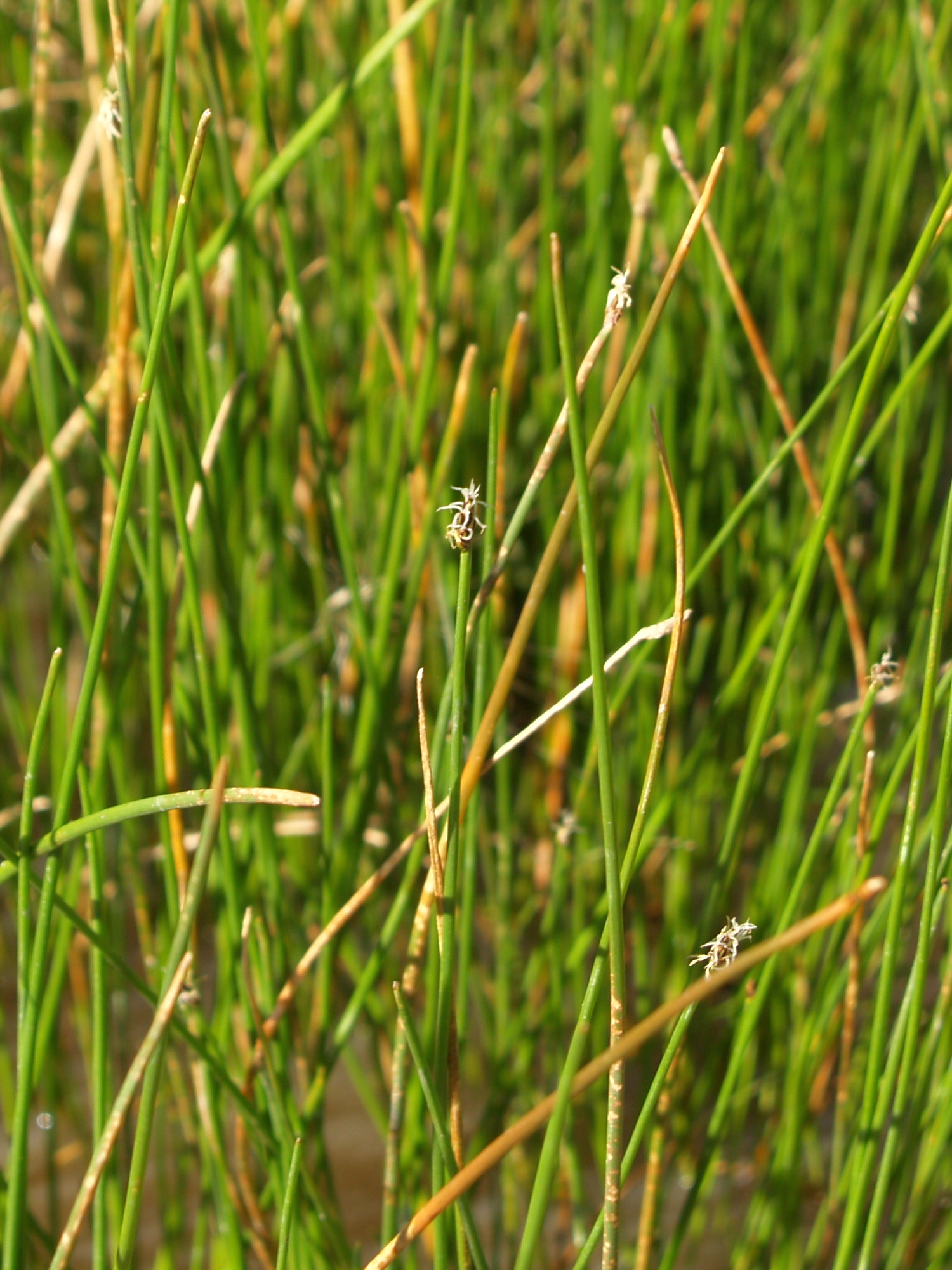 Yu Ito (2012) Aquatic plant surveys in northern Europe. Bulletin of Water Plant Society, Japan 98: 45-50.